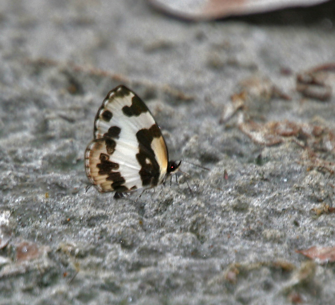 Elbowed Pierrot Caleta elna at Jayanti in Buxa Tiger Reserve in Jalpaiguri district of West Bengal, India.